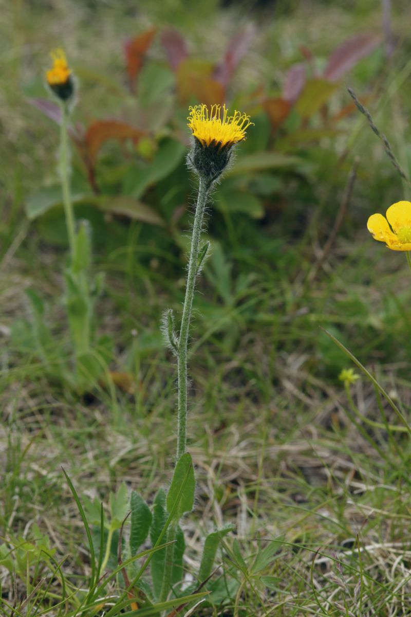 Hieracium rohlenae (H. fritzei group), Luční hora, Krkonoše mountains, Czech republic (endemic species of Krkonoše mountains)